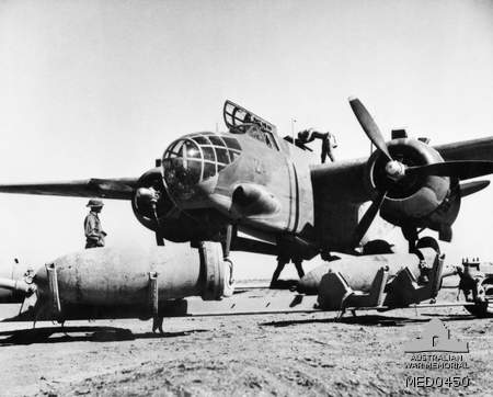 AWM caption : Western Desert, Libya. 4 June 1942. Bombs ready for loading into a Douglas DB-7B Boston Mk III bomber of the South African Air Force. This would be an aircraft of No. 24 Squadron SAAF.